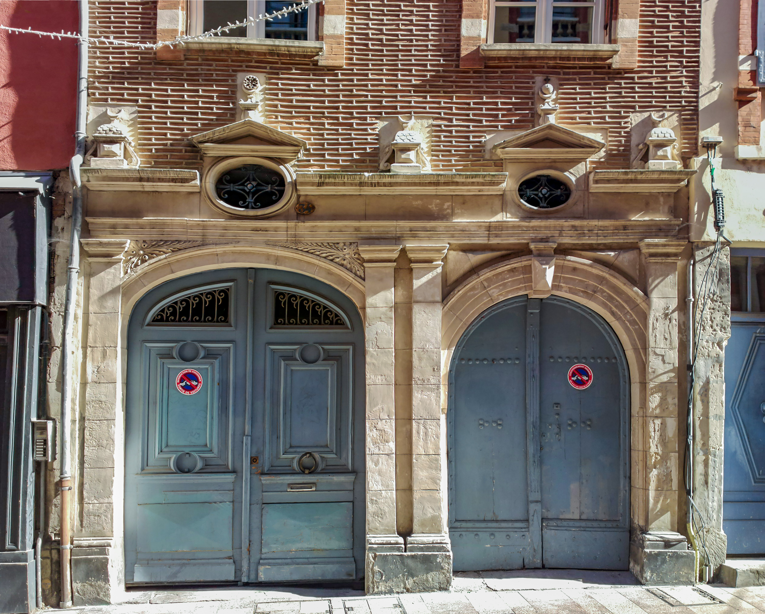 Rue Peyrolières, in Toulouse - no 34 : hôtel Lagorée. Stagecoach entrance on the left and pedestrian on the right. This mansion was built in the late sixteenth century, after 1591, for Jean de Lagorée, capitoul in 1601-1602.